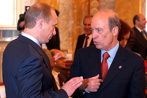 CONSTANTINE PALACE, STRELNA. President Putin and Greek Prime Minister Konstandinos Simitis before a plenary meeting of the Russia - EU Summit.